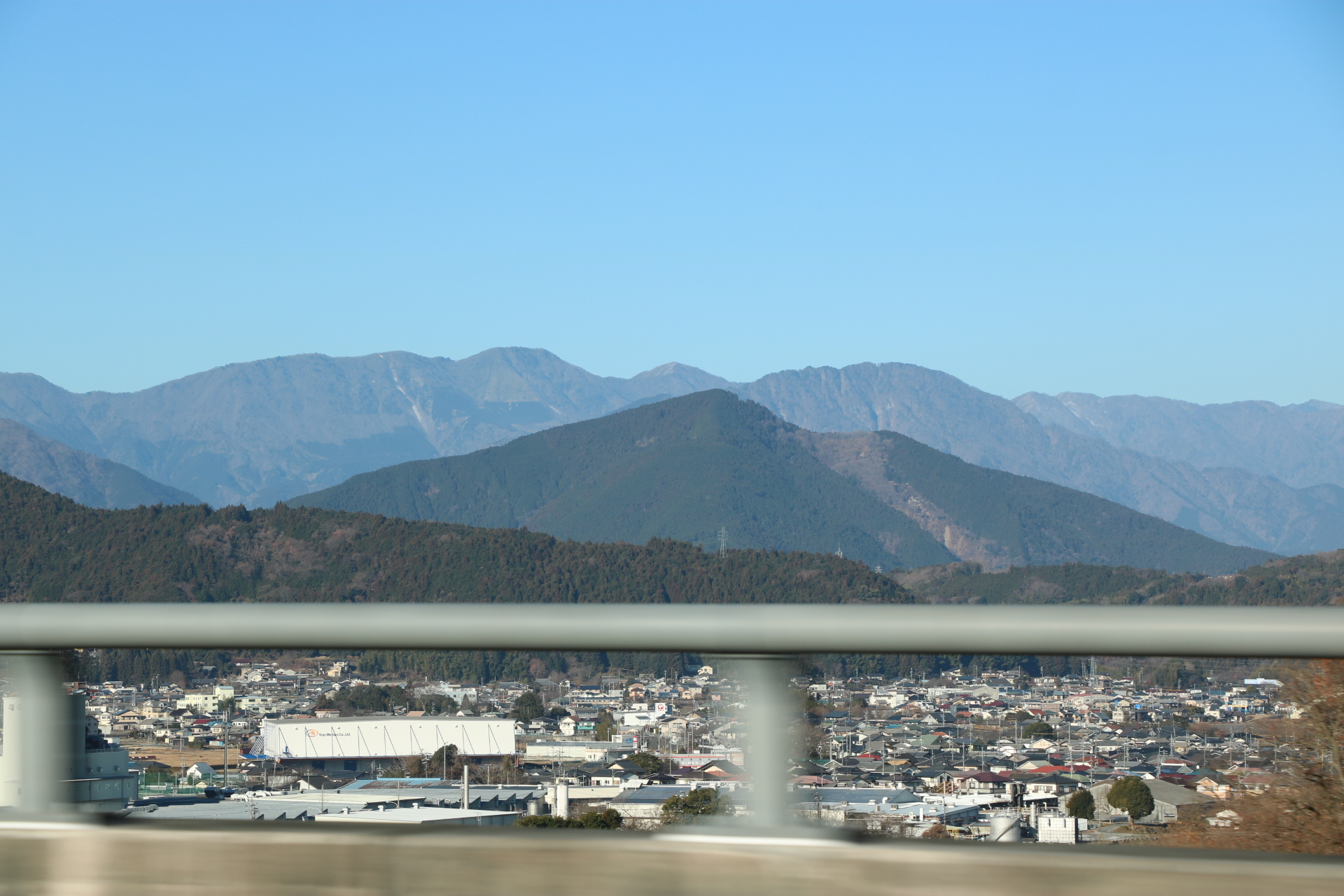 Mount Shinoi (Shinoi-san) as seen from the ENE.